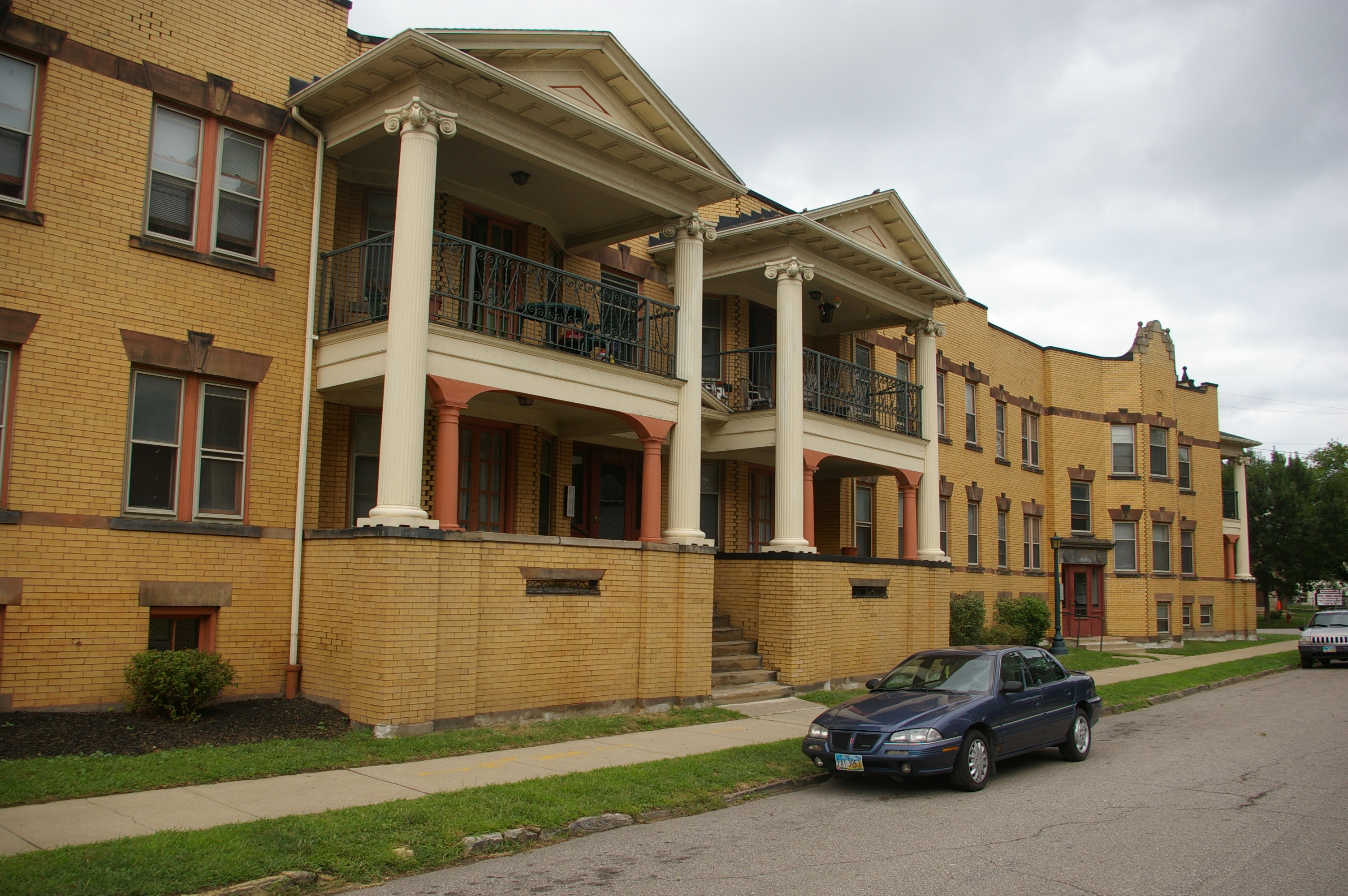 A view of the Crawford-Tilden Apartments at 1831-1843 Crawford Road and 1878-1888 East 84th Street, in Cleveland, Ohio. The structure was built in 1908 to designs by Burt W.Corning, architect. It is listed on the National Register of Historic Places.